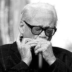 Portrait of Toots Thielemans